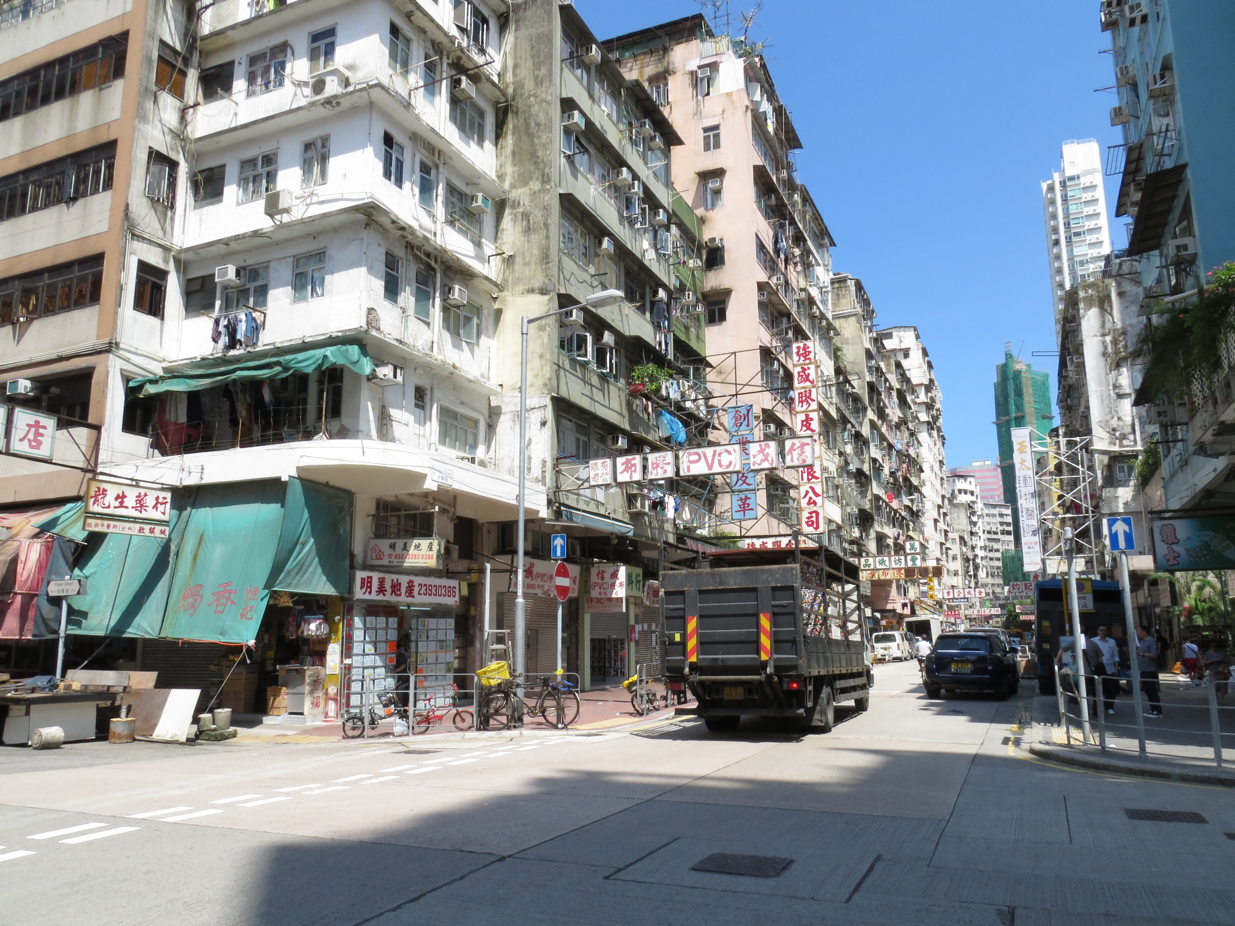 Intersection of Tai Nan Street and Poplar Street, Sham Shui Po, Kowloon, Hong Kong.